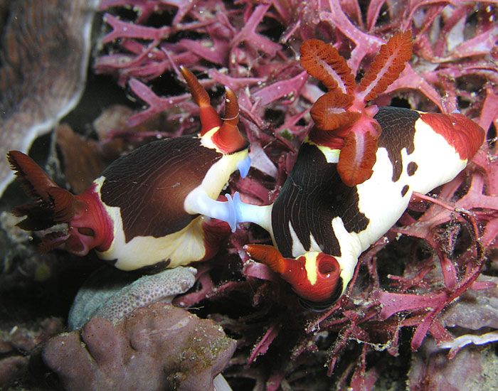 Nembrotha purpureolineata, synonym: Nembrotha rutilans mating behavior.